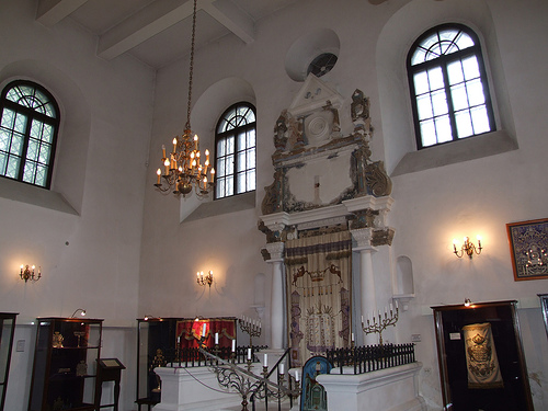 Big Synagogue in Łęczna